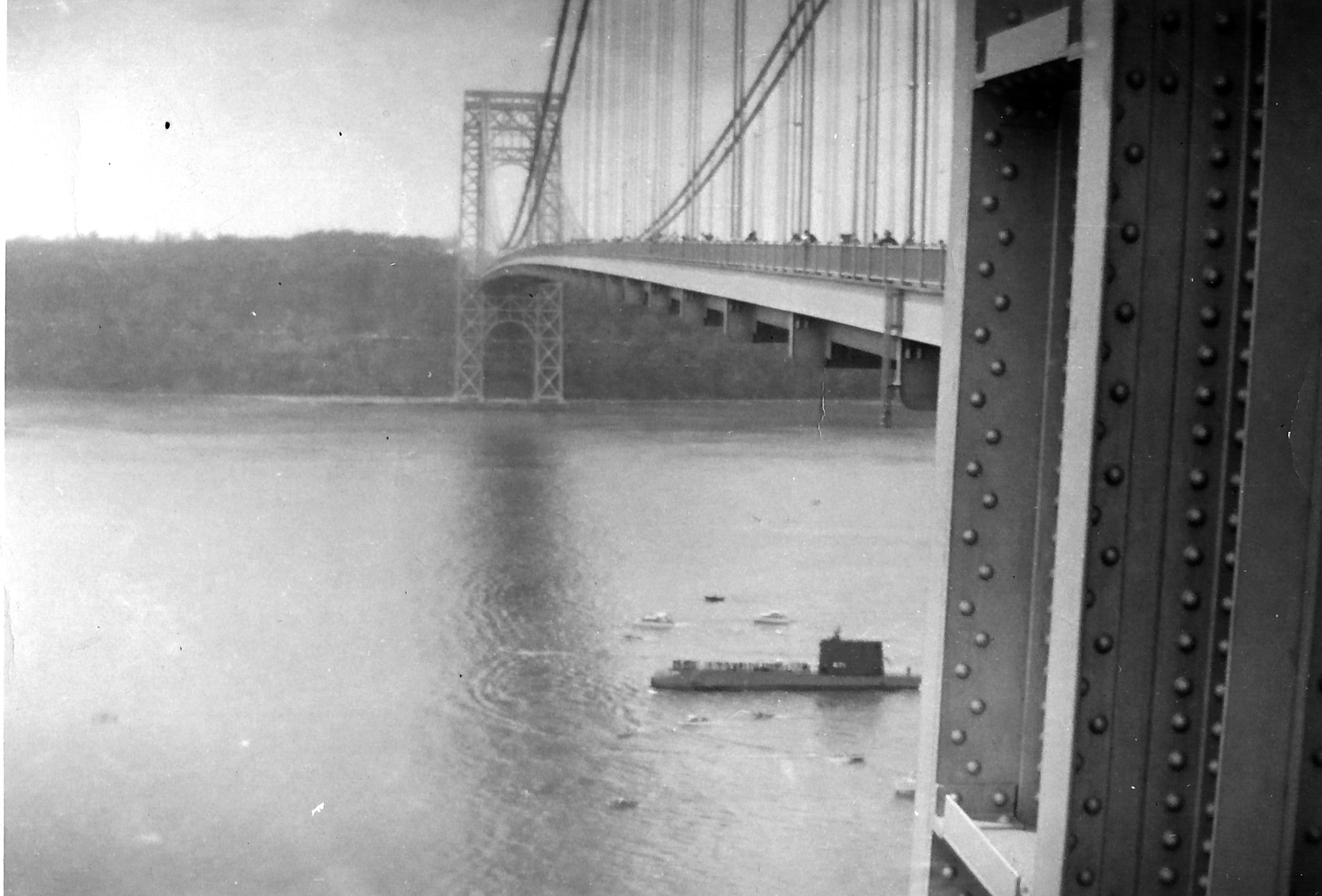 USS Nautilus passing under George Washington Bridge as part of an Armed Forces Week visit to New York harbor.